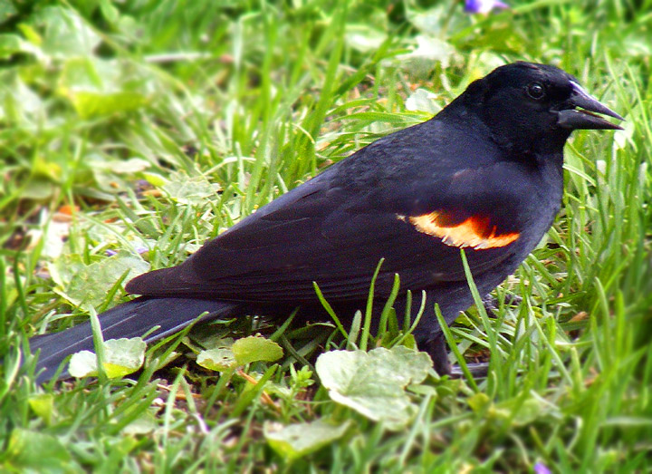 Red Wing Black Bird, [foto by P.B.Toman]